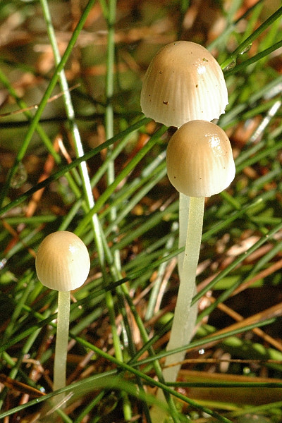 Mycena epipterygia from Commanster, Belgium. The determination of the species shown in this picture has been verified.